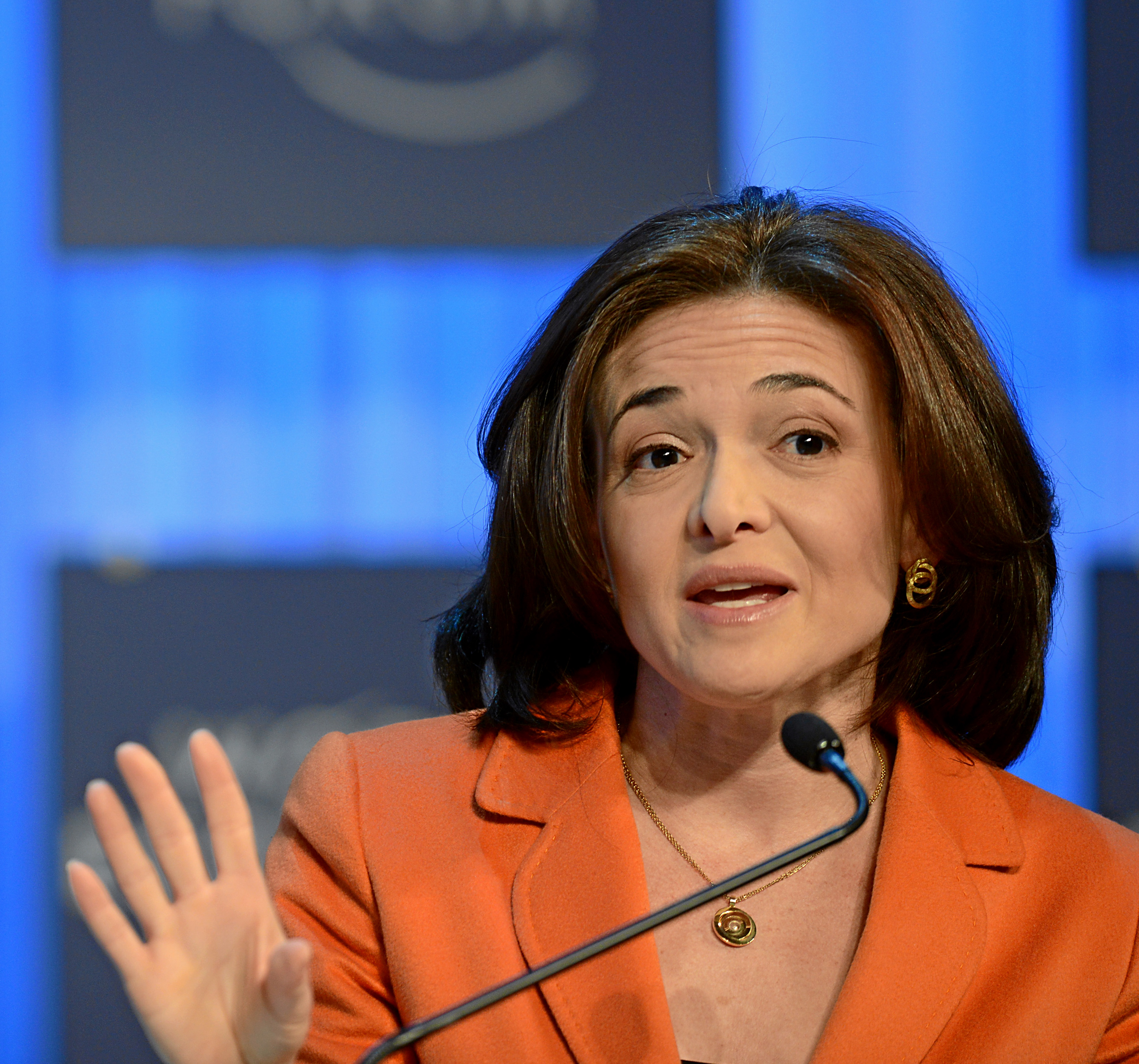 DAVOS/SWITZERLAND, 25JAN13 - Sheryl Sandberg, Chief Operating Officer and Member of the Board, Facebook, USA; Young Global Leader Alumnus gives a statement during the session 'Women in Economic Decision-making' at the Annual Meeting 2013 of the World Economic Forum in Davos, Switzerland, January 25, 2013. . . Copyright by World Economic Forum. . Michael Wuertenberg